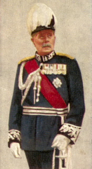 Sir Hugh Trenchard as Commissioner of the Metropolitan Police in ceremonial police uniform as depicted on a cigarette card. The card was headed "Lord Trenchard" and posed the question "How has he improved the Force?"